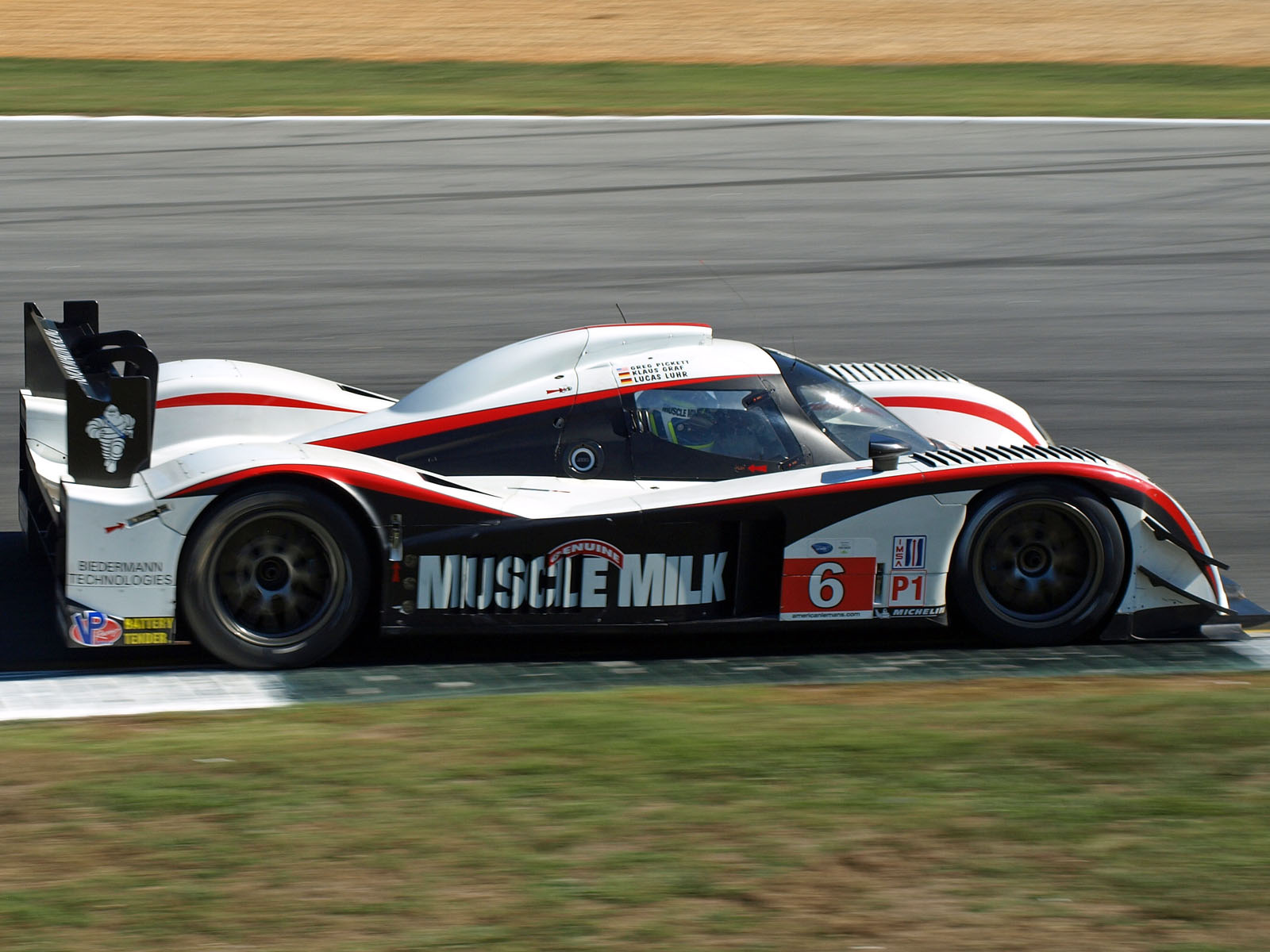 Klaus Graf driving the Muscle Milk Motorsports Lola-Aston Martin B09/60 in qualifying for the 2011 Petit Le Mans at Road Atlanta.